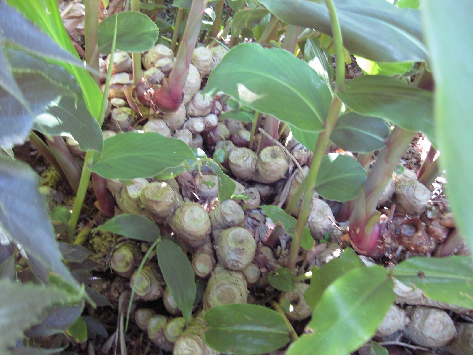 Photographed at the Royal Botanic Gardens Melbourne (Australia) in December